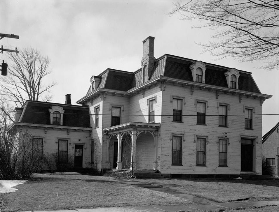 Benjamin Wade House, 22 Jefferson Street, Jefferson, Ashtabula County, OH. EXTERIOR, VIEW FROM NORTHEAST, CLOSE-UP